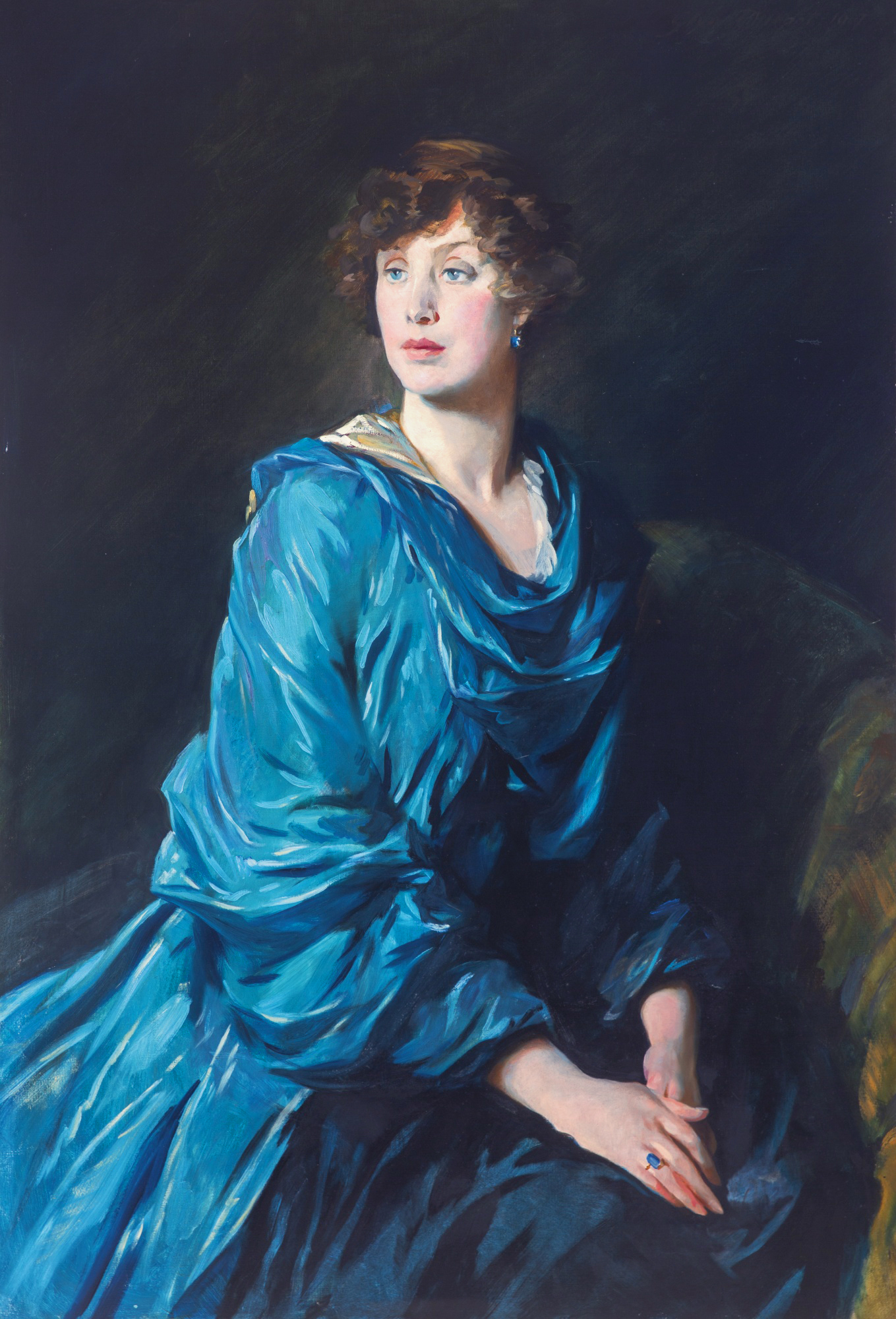 Margaret (Peggy) Crewe-Milnes, Marchioness of Crewe oil on canvas 120 x 79 cm signed t.r.: Glyn Philpot 1917